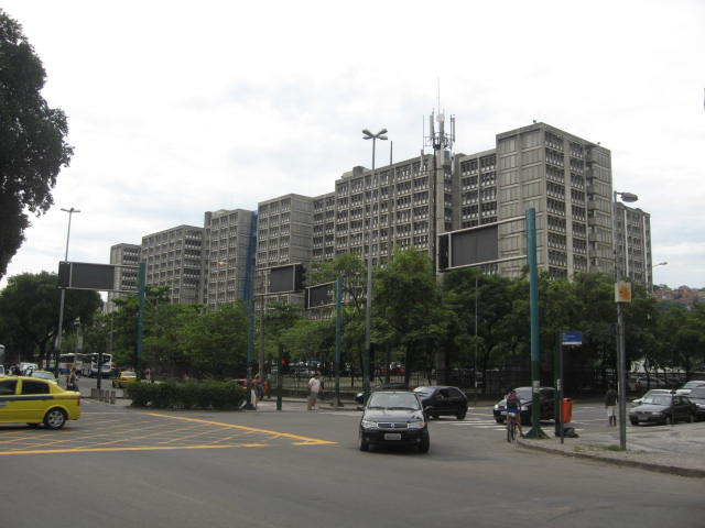 Rio de Janeiro State University - View of the university's Maracanã Campus